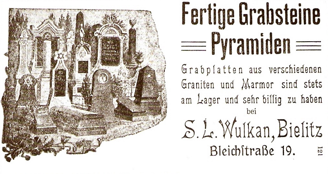 Advertisement of Salomon Wulkan's mason shop.